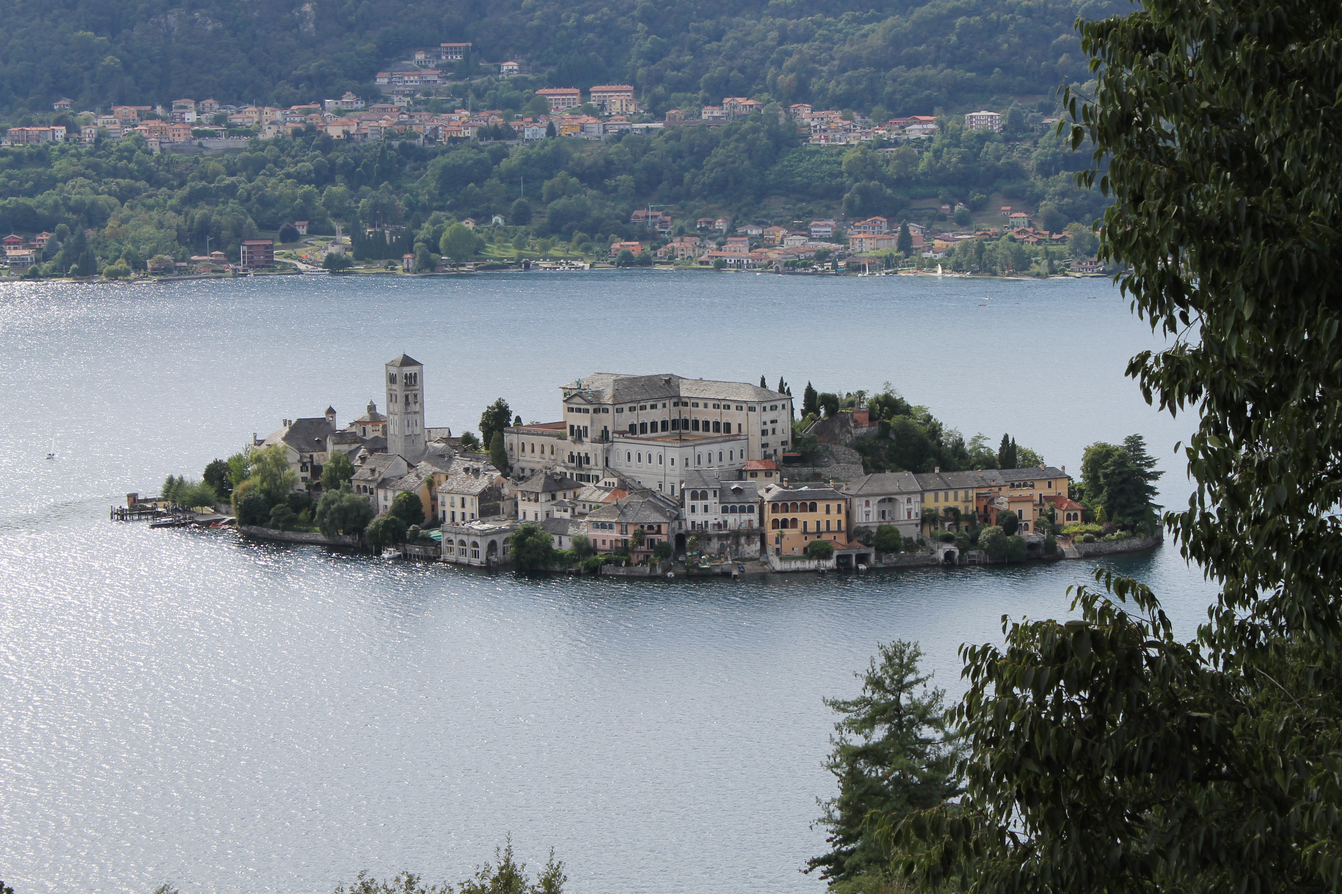 The isle of Orta San Giulio - Piedmont